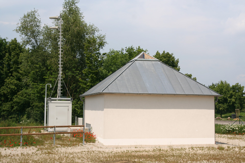 Emergency exit of the Göggelsbuch Tunnel, Nuremberg–Ingolstadt high-speed railway line